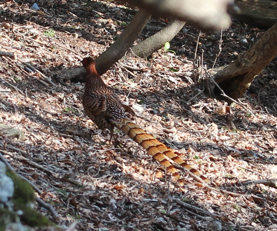 Syrmaticus soemmerringii subrufus (Copper Pheasant), male, in Mount Fujiwara, Inabe, Mie prefecture, Japan.